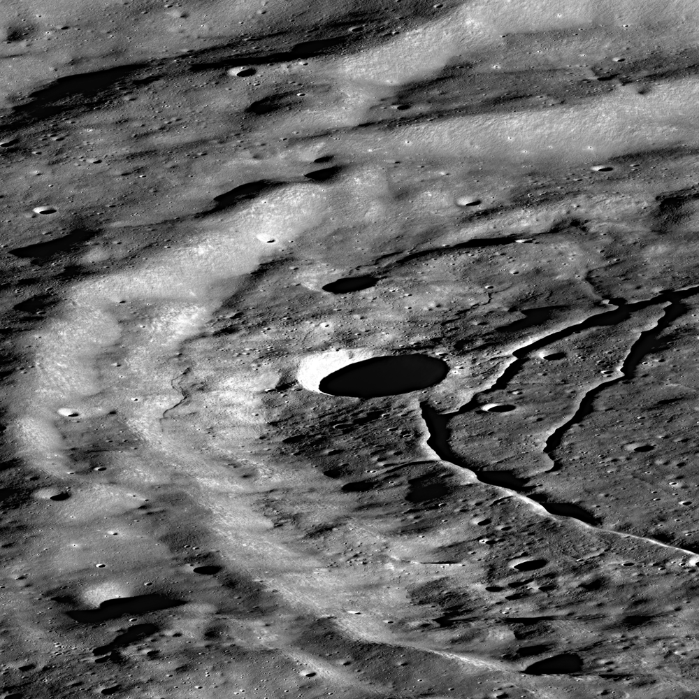 NAC oblique of the northern floor of Karpinskiy crater, which is centered at 72.609°N and 166.801°E. Crater floor fractures are seen, concentric to the crater wall, as well as a 6-km diameter impact crater on the floor (center of image) [NASA/GSFC/Arizona State University].